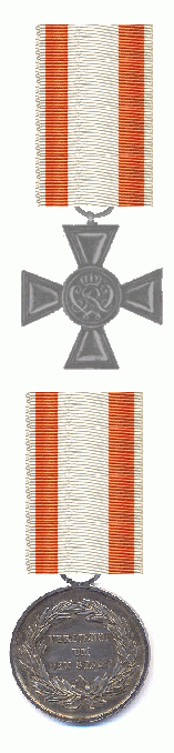 Prussian General Award